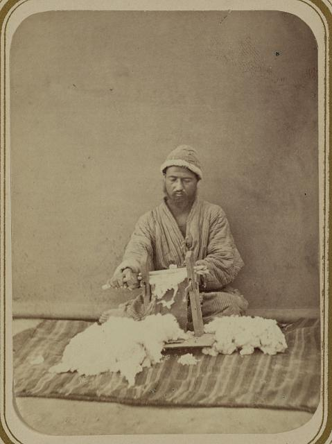 Turkish man. Cotton production. Cleaning cotton from the seeds (cloth maker)